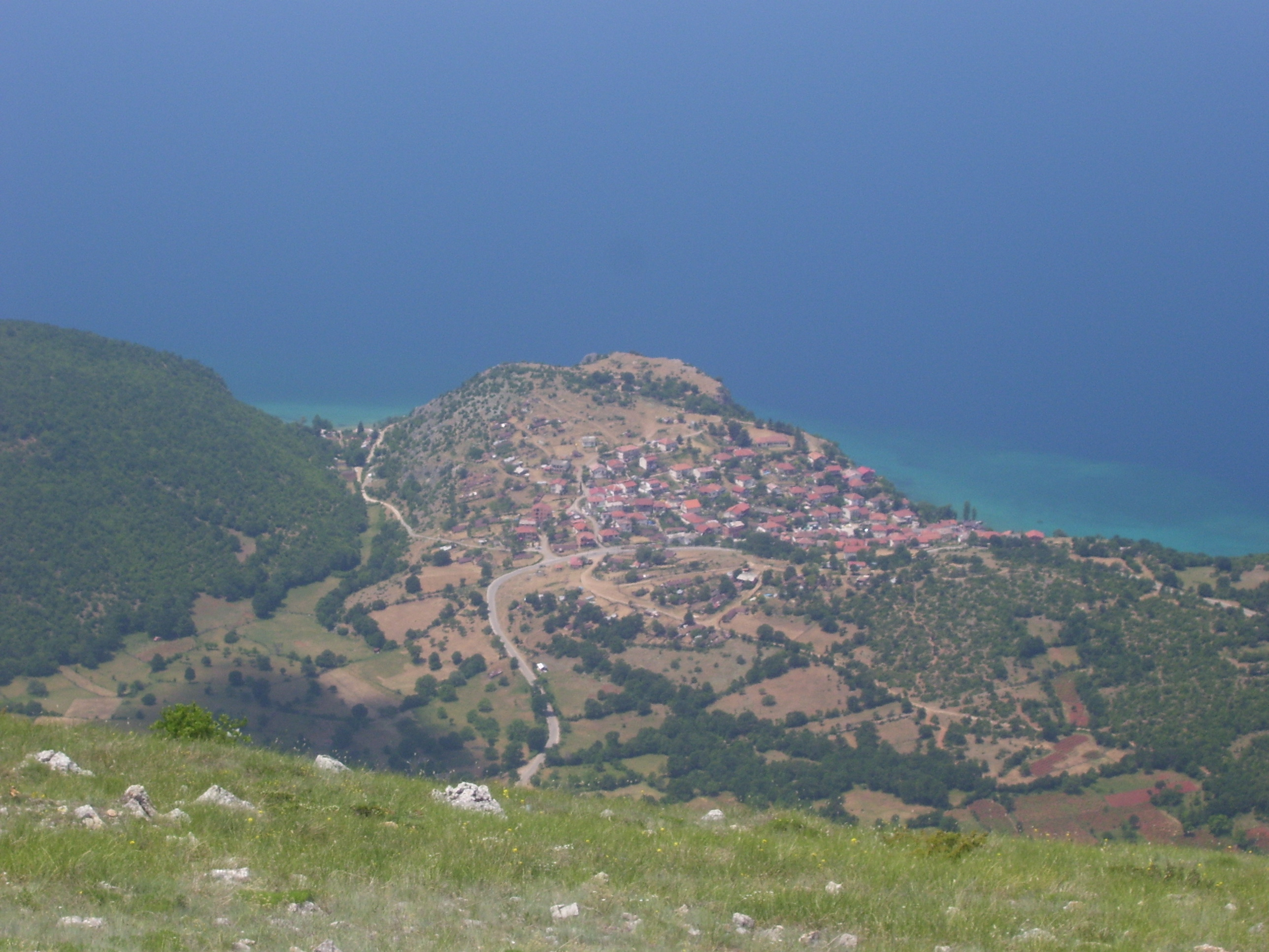 Village of Trpejca from Galičica Mountain, Republic of Macedonia.